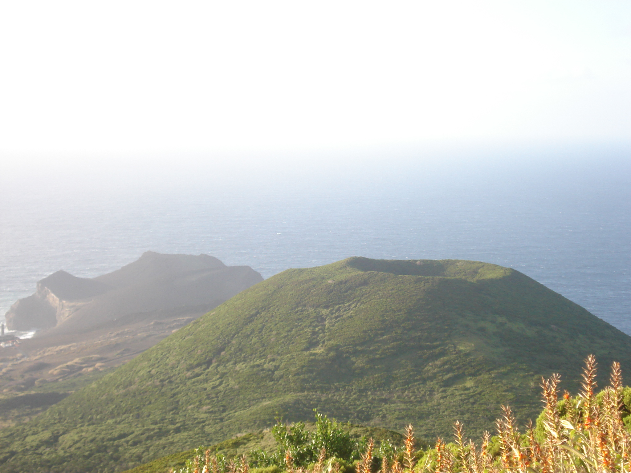 The ancient spatter cone of Cabeço do Canto, Capelo Volcanic Complex, Capelo, Horta, Faial (Azores), Portugal